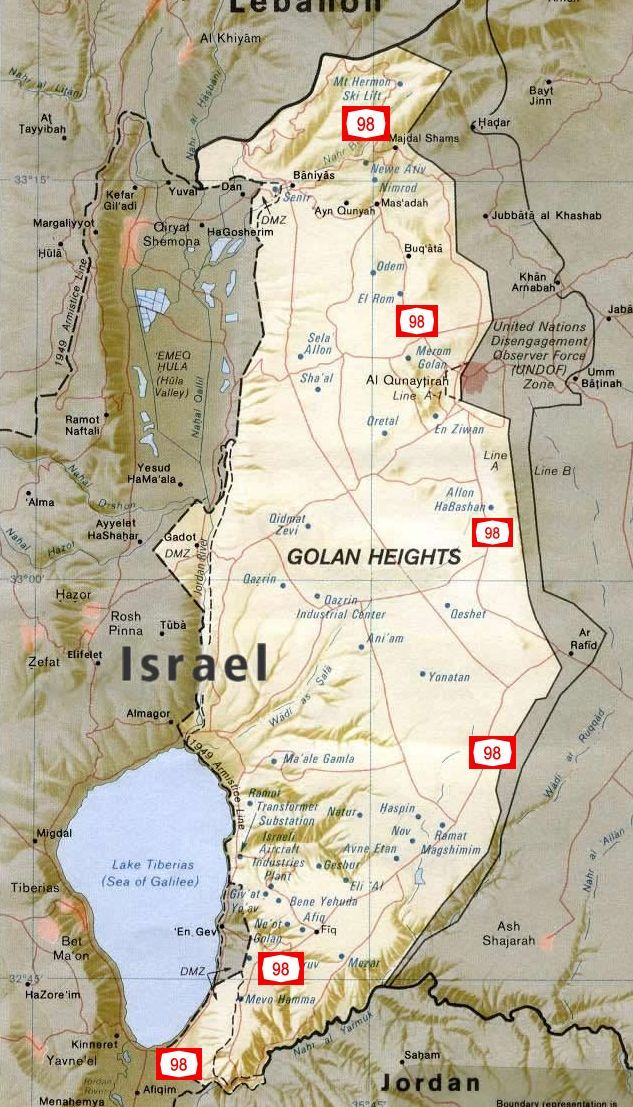 cia map found at Category:Maps of the Golan Heights